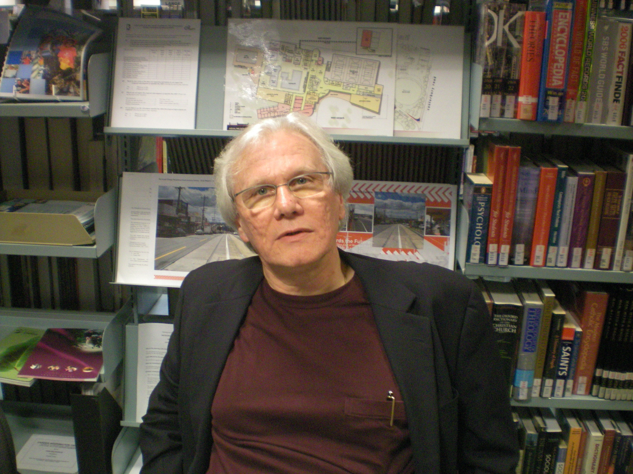 Jack Dann.